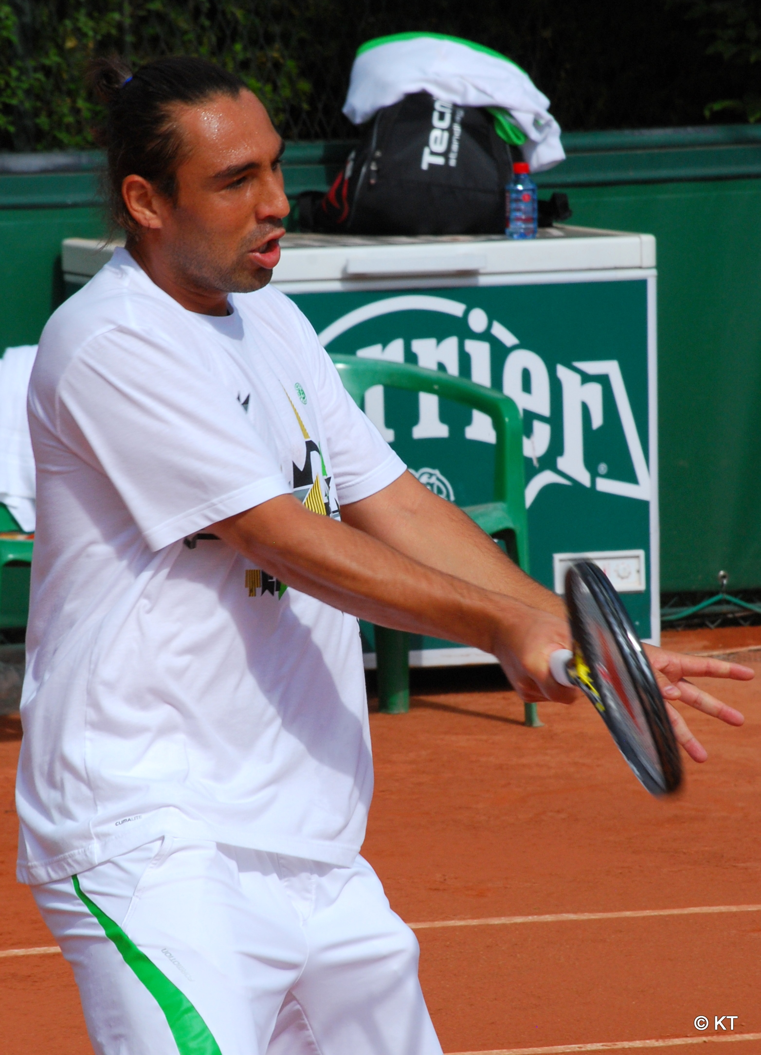 Baghdatis practicing at the 2011 French Open